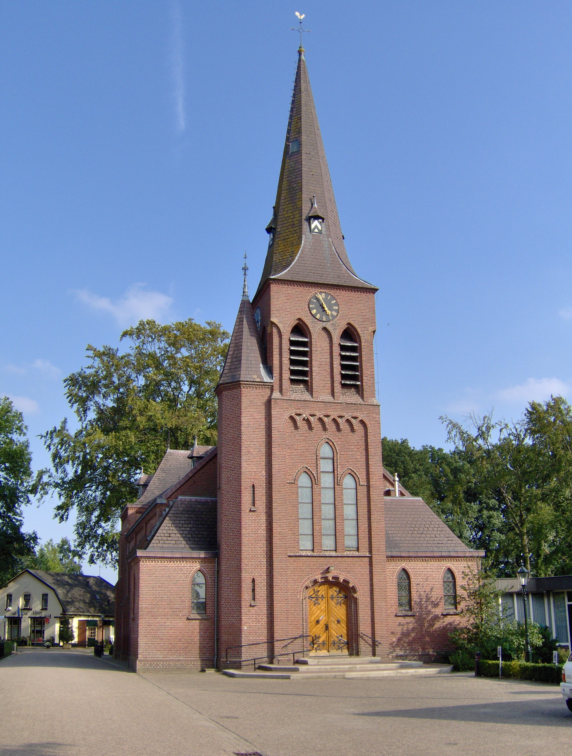 The St. Stephanus Church of Hertme, a little village in the municipality of Borne, Netherlands; built in 1903, design by Wolter te Riele